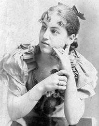 Gemma La Guardia Gluck (1881-1962), American writer, of Italian Jewish origin, then lived in Hungary, Holocaust survivor